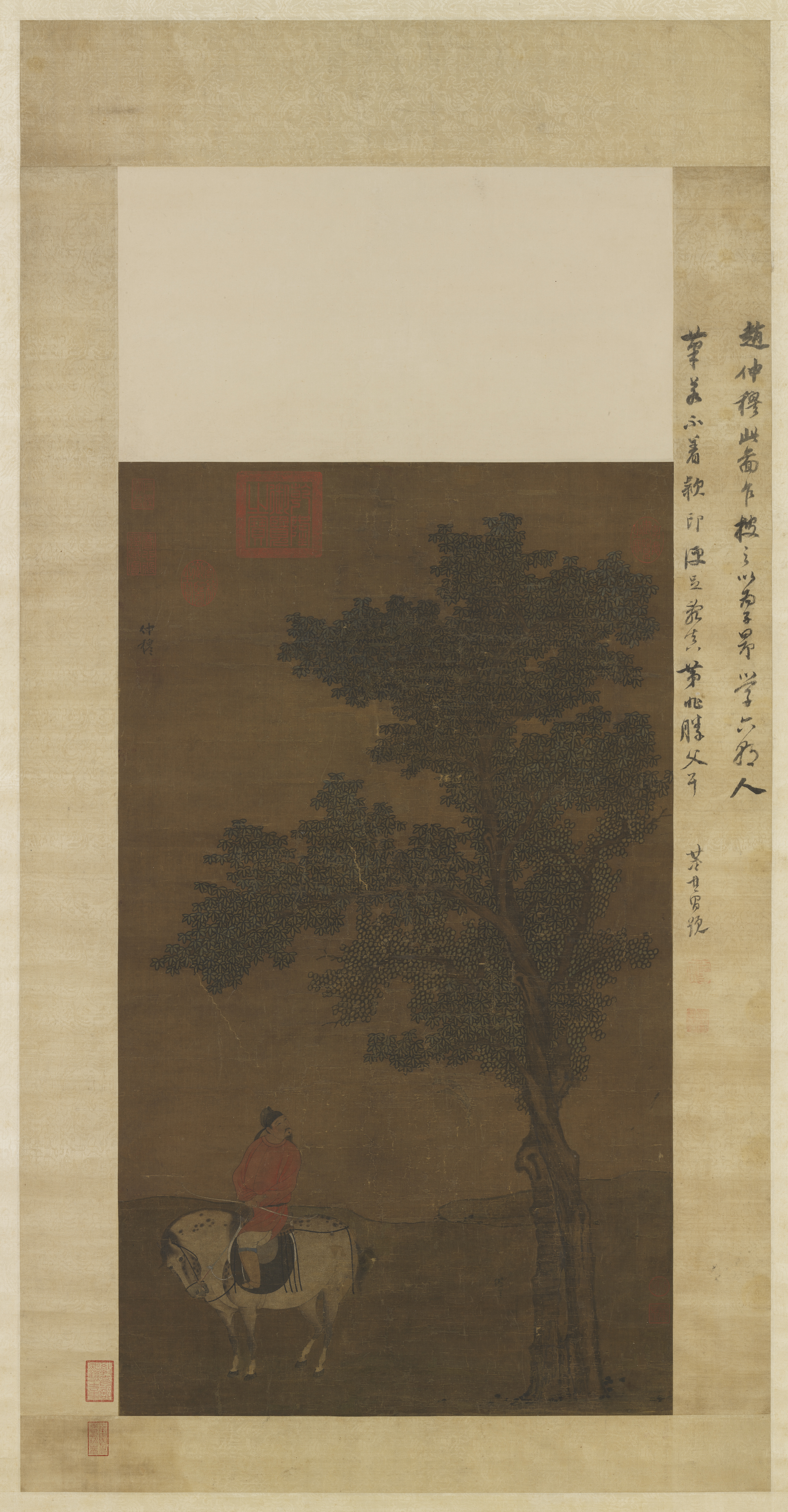 A ride in spring (chinese: Chunjiao youqi tu), by Zhao Yong (son of Zhao Mengfu, see Image:OldTreeAndHorses.jpg), China, Yuan dynasty, 14th century. Ink and paint on silk, height 88 cm, width 51.1 cm. National Palace Museum, Taibei, Inv. no. guhua 000224. The writing on the left, discussing the artistic merits of the painting, is by Dong Qishang. For only the painting, see Image:RidingOutInSpringtimeCropped.jpg.